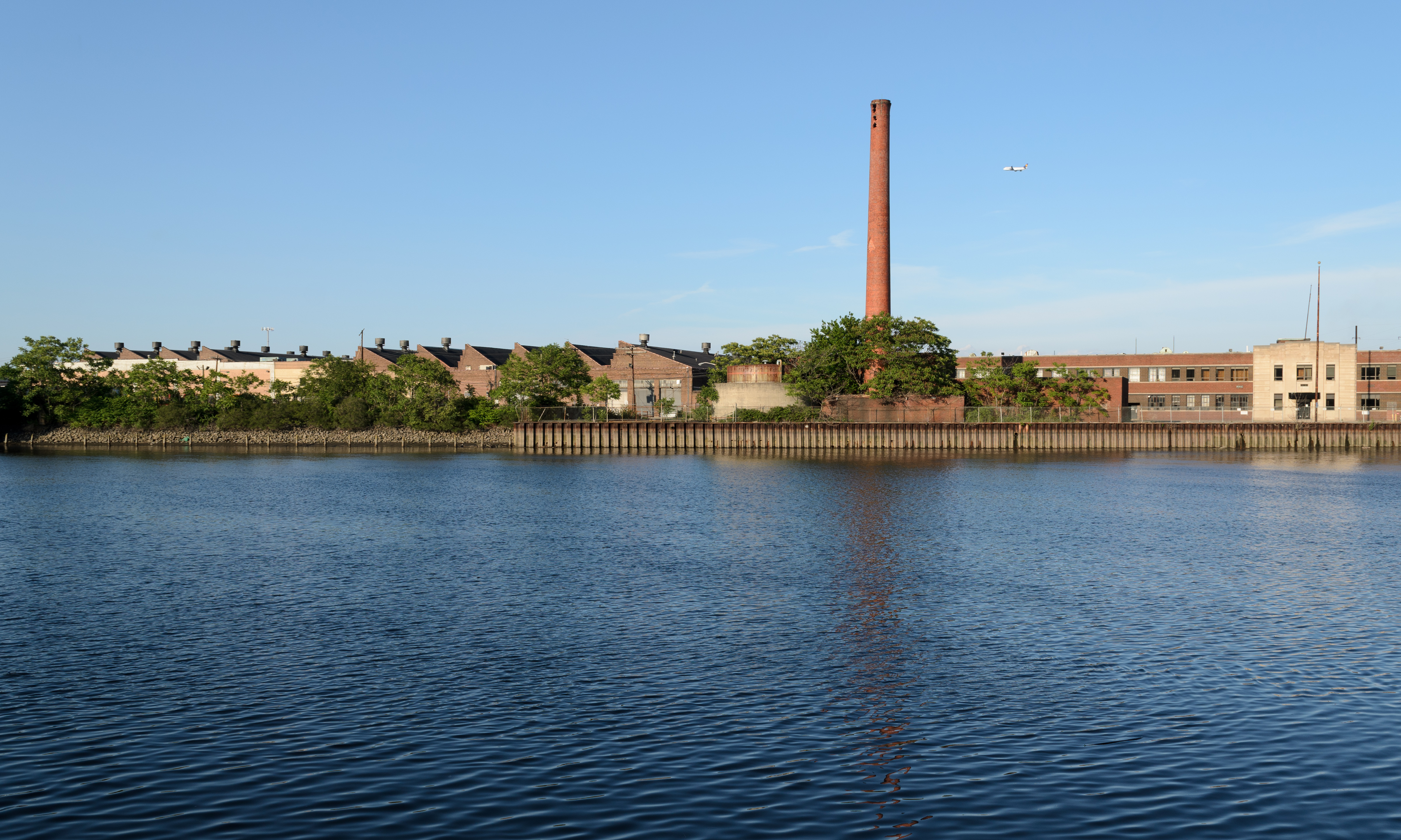 Industrial buildings in Harrison, as seen from Newark, New Jersey.